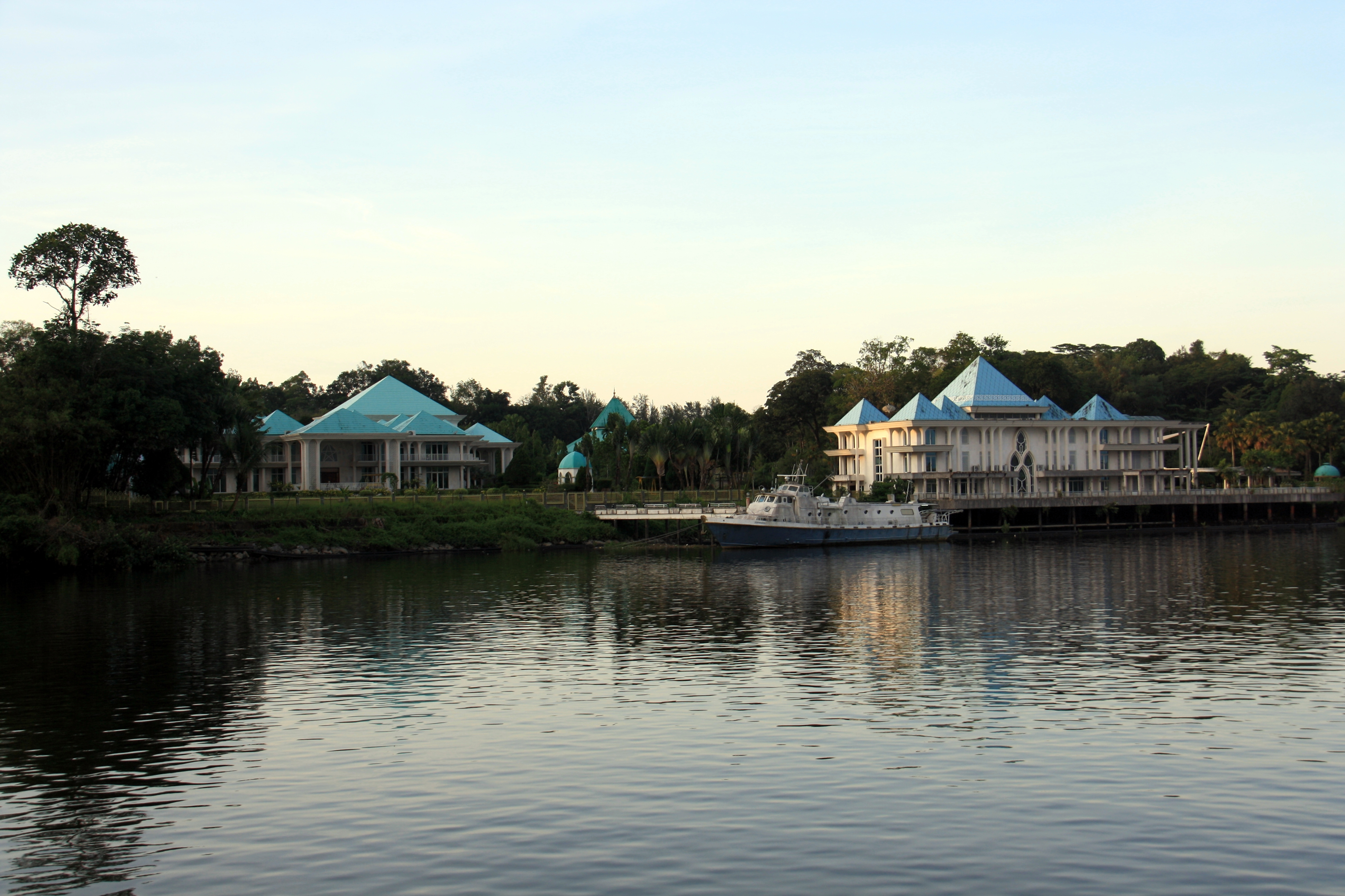 Former Sarawak chief minister Abdul Taib Mahmud's private residence as viewed from Sarawak River Cruise. A yacht is seen tied up at the jetty.